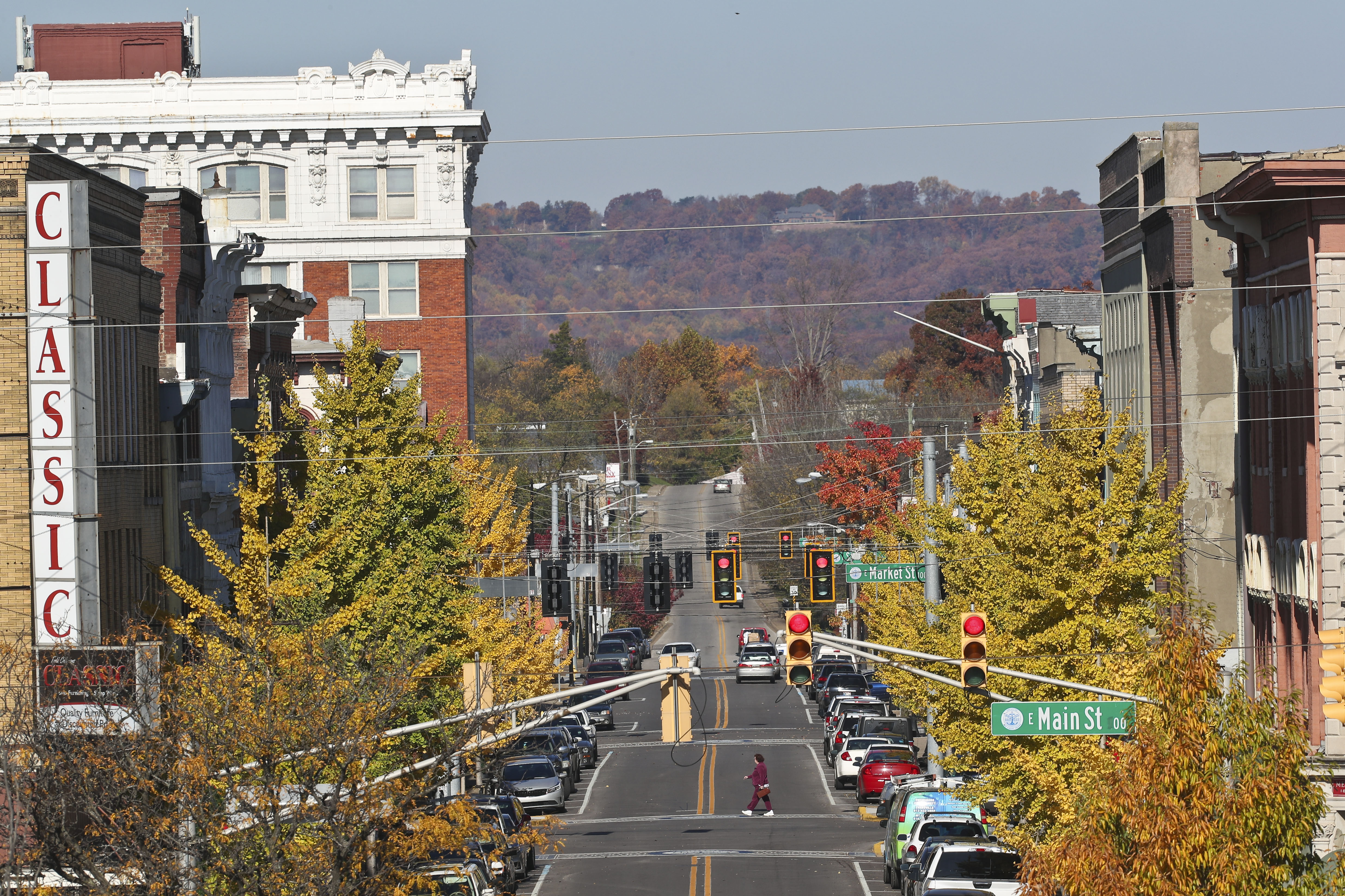 A view of Pearl Street in downtown New Albany, looking north. The hills of Floyds Knobs can be seen in the distance.